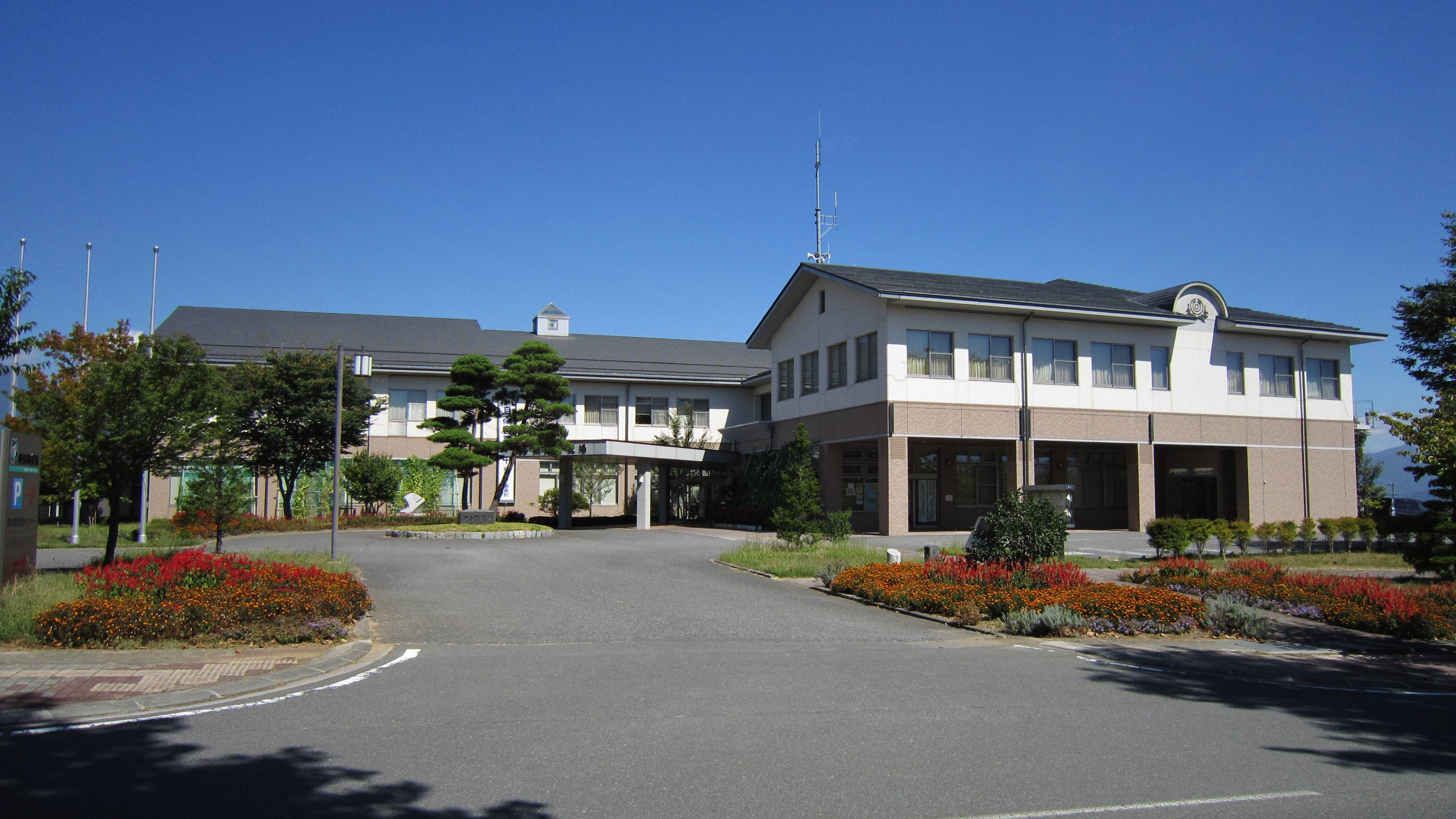 Iijima town office.